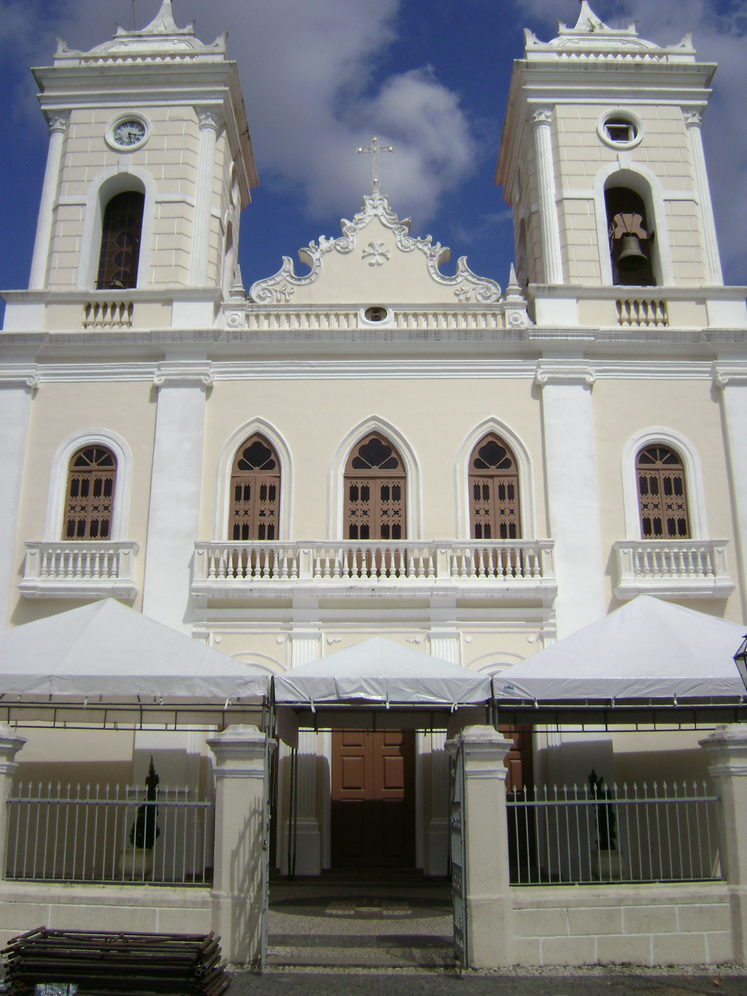 Paróquia da Catedral Metropolitana de Sant'Ana, em Feira de Santana, Bahia, Brasil. Localiza-se ao encontro das ruas Conselheiro Franco com Góes Calmon.